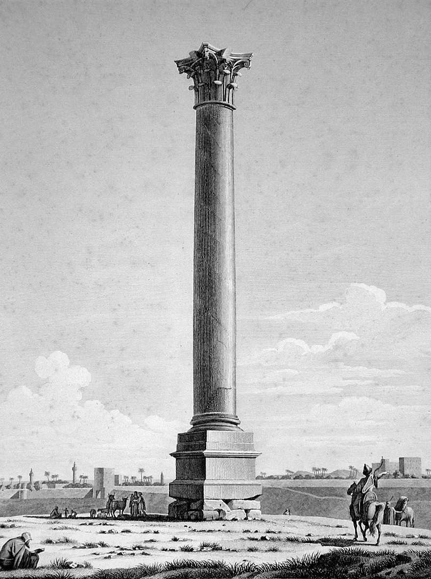 Description de l'Egypte, Antiquités V, Plate 34, Pompey's Pillar, drawn c.1798, published in the Panckoucke edition of 1821-9